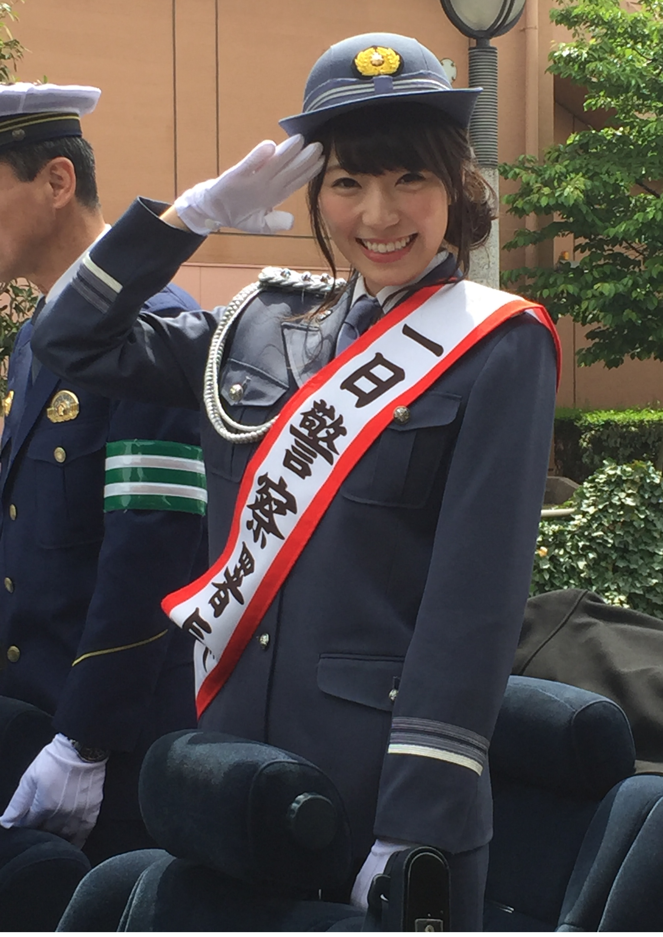 This is the picture of Sakiko Matsui who was a menber of AKB48, Japanese pops group. She did a "one-day Police chief" at Tokyo Wangan Police Station.